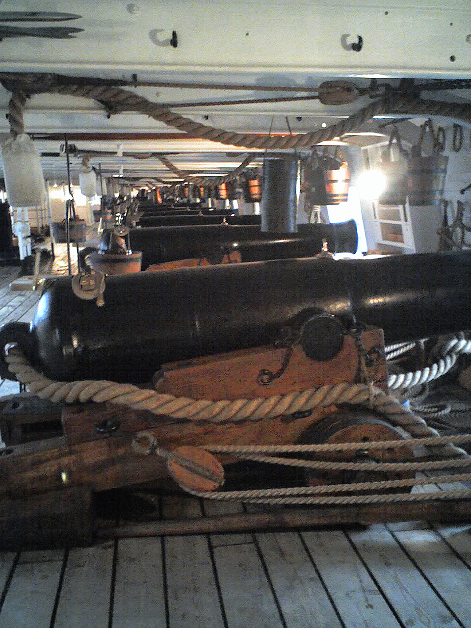 Gun deck of HMS Warrior (1860) as restored, showing the broadside of 68pdr guns. Taken by me Feb 07.